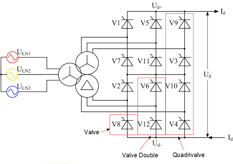 Explain the concept of quadrivalve by HVDC